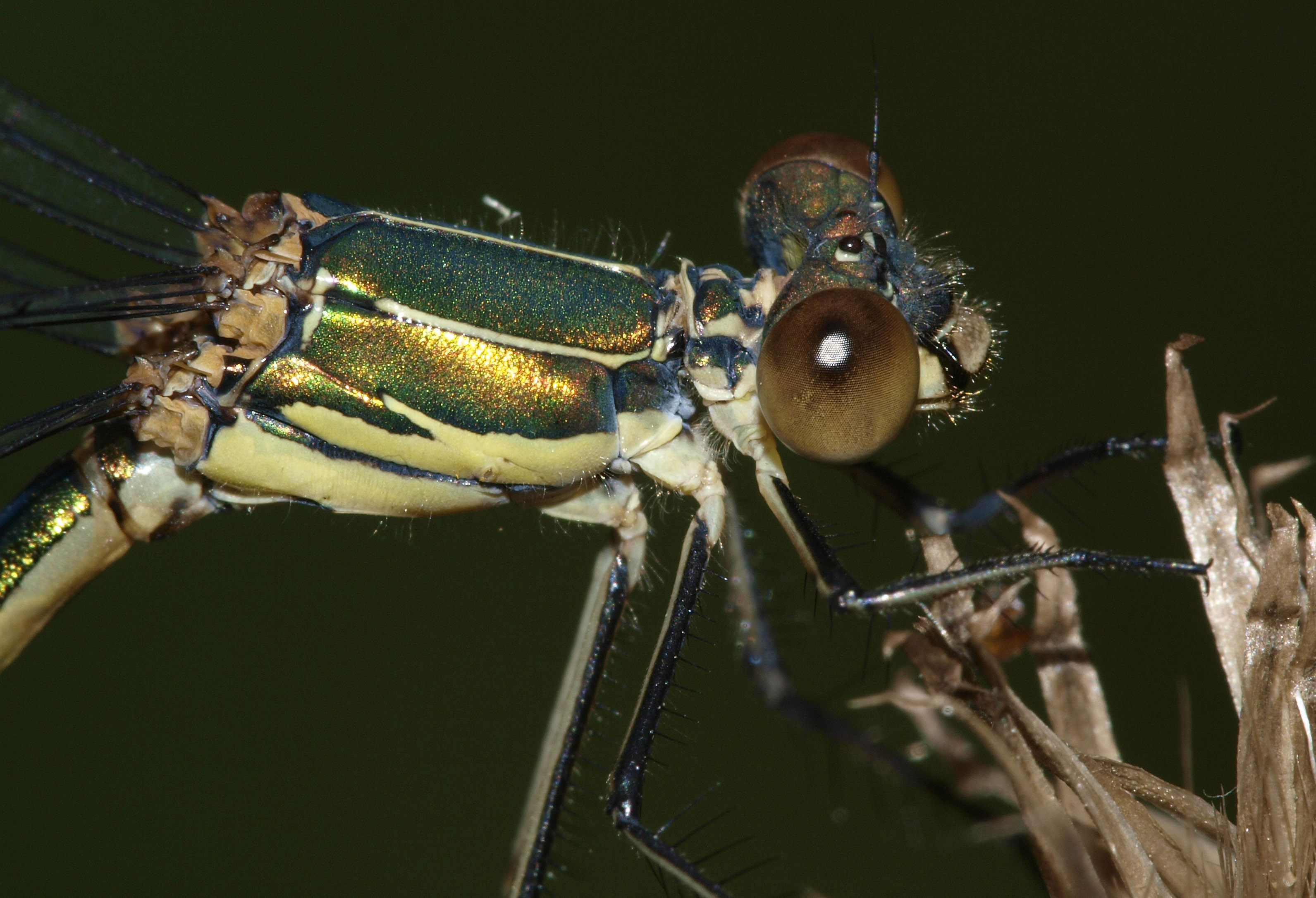 Female (Chalco)lestes viridis